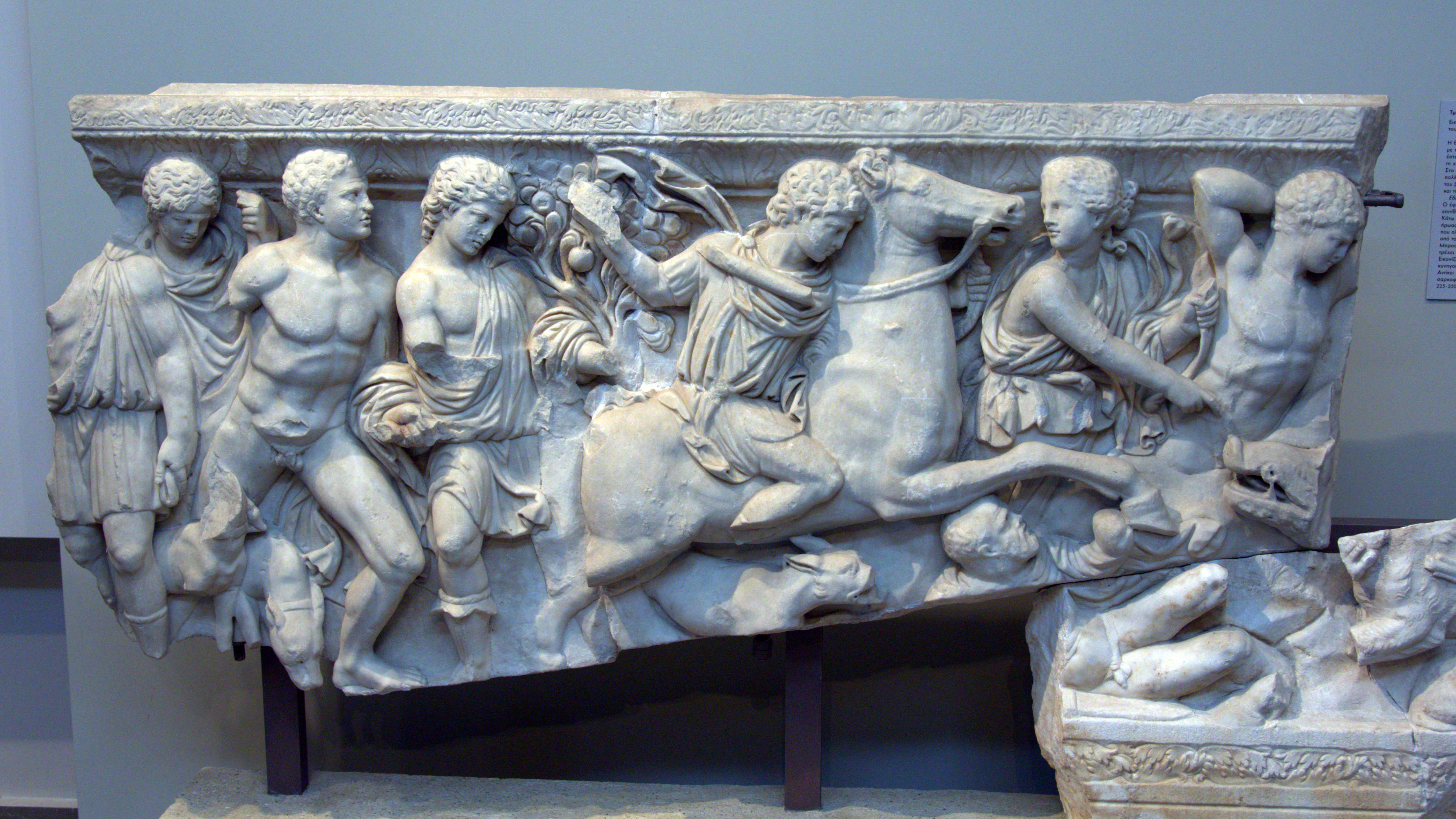 "Myth has is that.." the goddess Artemis, angry with Oineus, kings of the Aetolians, sent the beast to devastate his land. Many heroes took part in the hunt, first among them the son of the king, Meleager, and the fearless huntress Atalanta. "Here.." Meleager, riding his horse, is attacking the boar. The Arcadian hero Angaeus lies on the ground, mortally wounded by the boar. Atalanta is running in front of the horse. There are also hunters depicted with dogs. This is one of the so-called "Attic" sarcophagi. 225-250 A.D. Archaeological Museum of Thessaloniki, Greece.